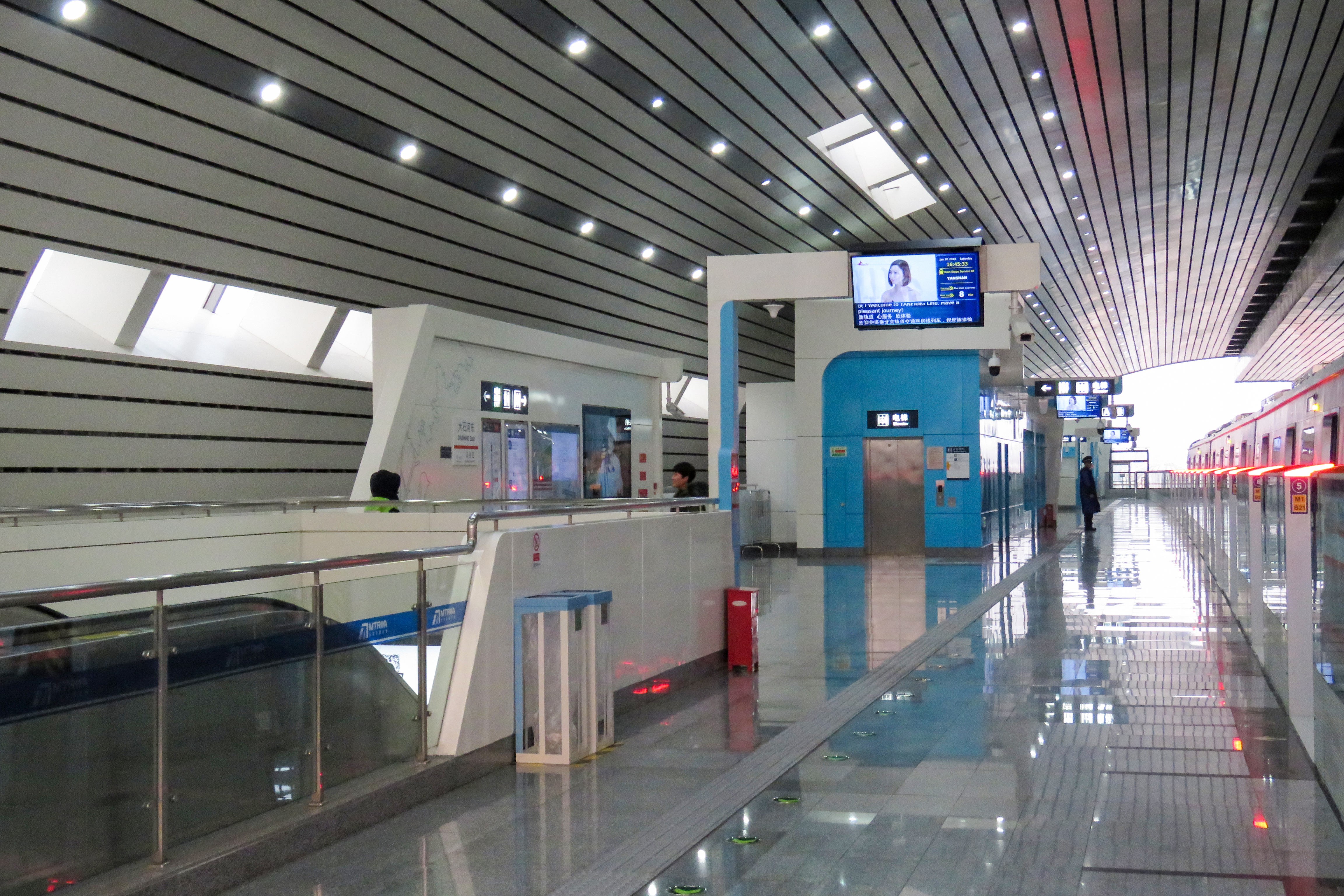 The station layout sketch is... in the middle, I think. This infill station has more to be discovered.